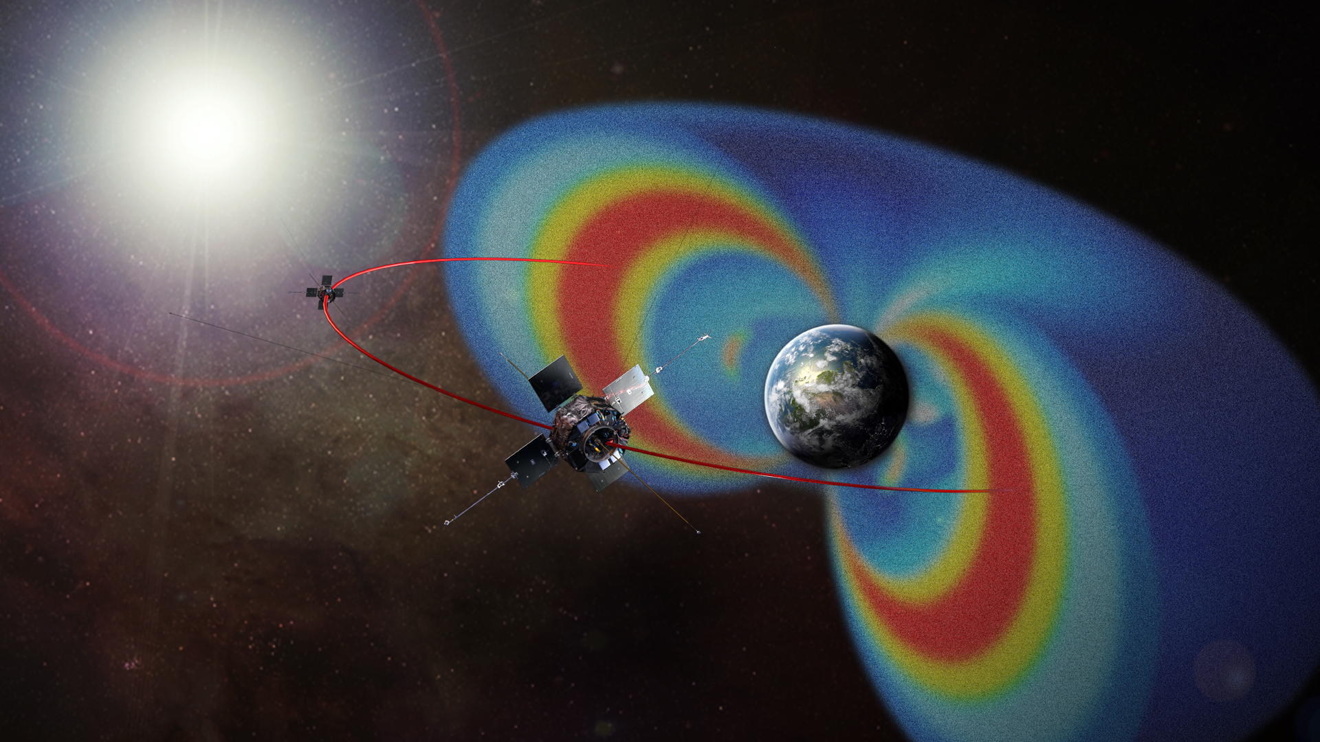 The tiny CREPT instrument will augment the science of NASA’s Van Allen Probes, formerly known as the Radiation Belt Storm Probes. This artist’s rendering of the Van Allen Probes mission shows the path of its two spacecraft through the radiation belts that surround Earth, which are made visible in false color.